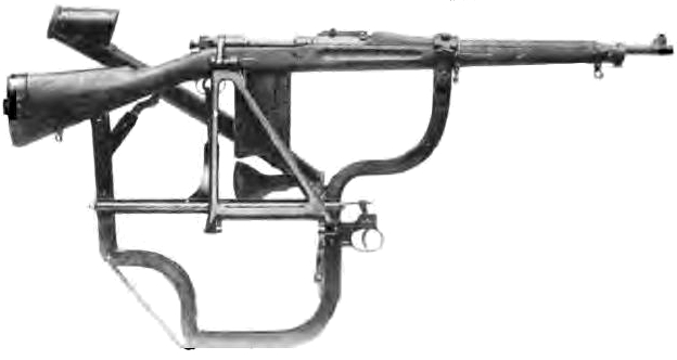 Photograph shwowing periscope attachment fitted to US World War I service rifle.